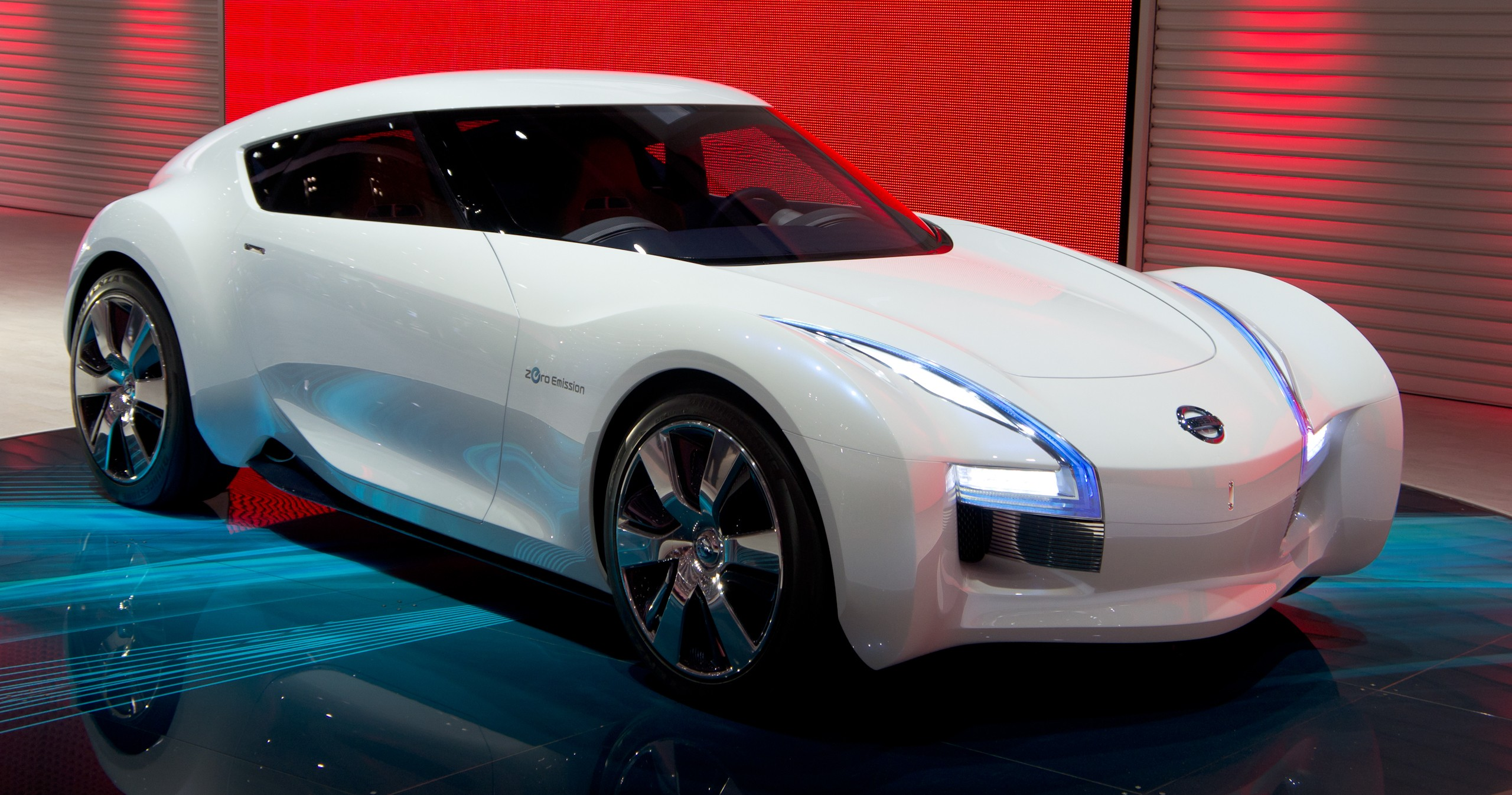 Tokyo Motor Show 2011: Nissan Esflow